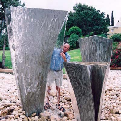 “Oasis” © 2004 Stainless Steel (water sculpture) Three sculptures: 8’, 6’and 4’H x approximately 3’ Diameter Three arching and twisting sculptures rise out of a bed of stones. Water glides down its surfaces and falls off its edges, creating undulating translucent sheets of water. Located in a desert climate, this lush landscaped setting for a water sculpture symbolizes both a physical oasis as well as a learning oasis created at this progressive scientific research center. Created for the Weizmann Institute of Science, Israel.